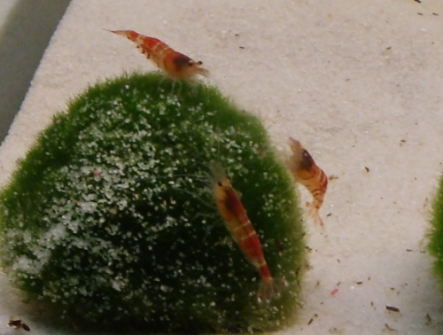 Caridina cf. cantonensis 'Crystal Red' shrimps